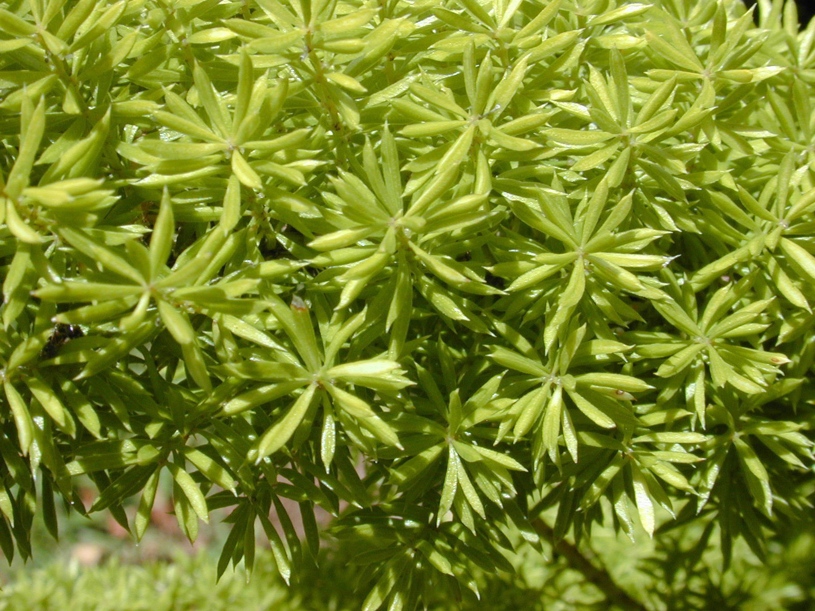 Asparagus densiflorus (leaves). Location: Maui, Makawao